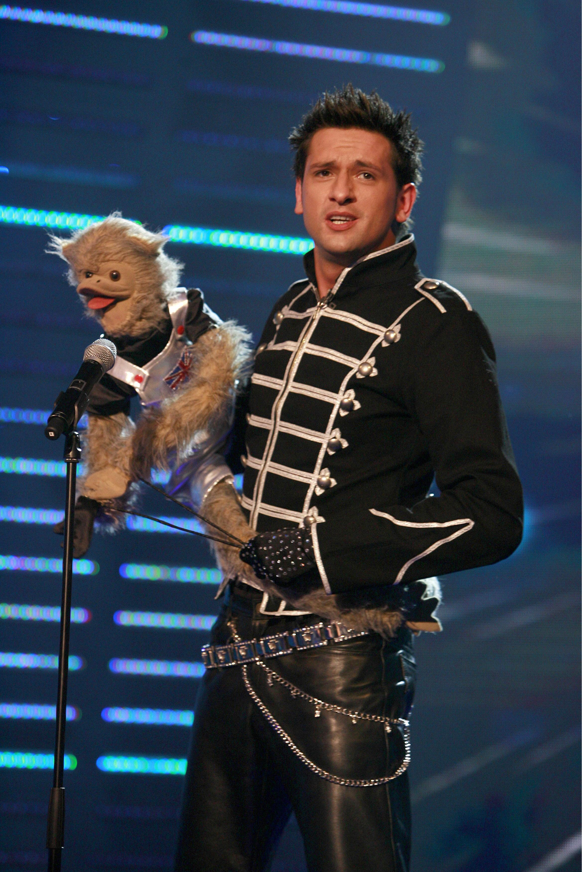 Damon Scott & Bubbles On Britains Got Talent